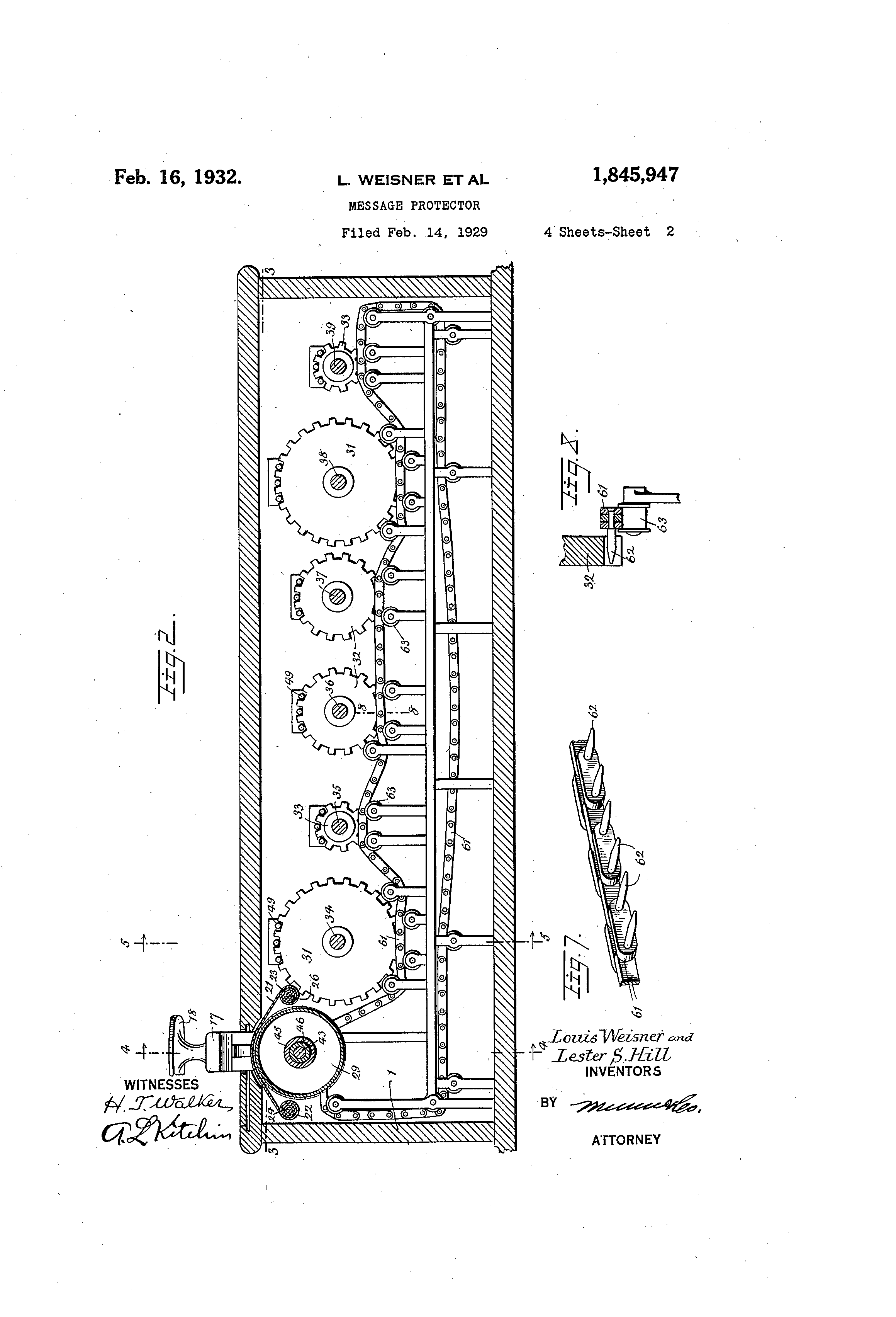 Message protector